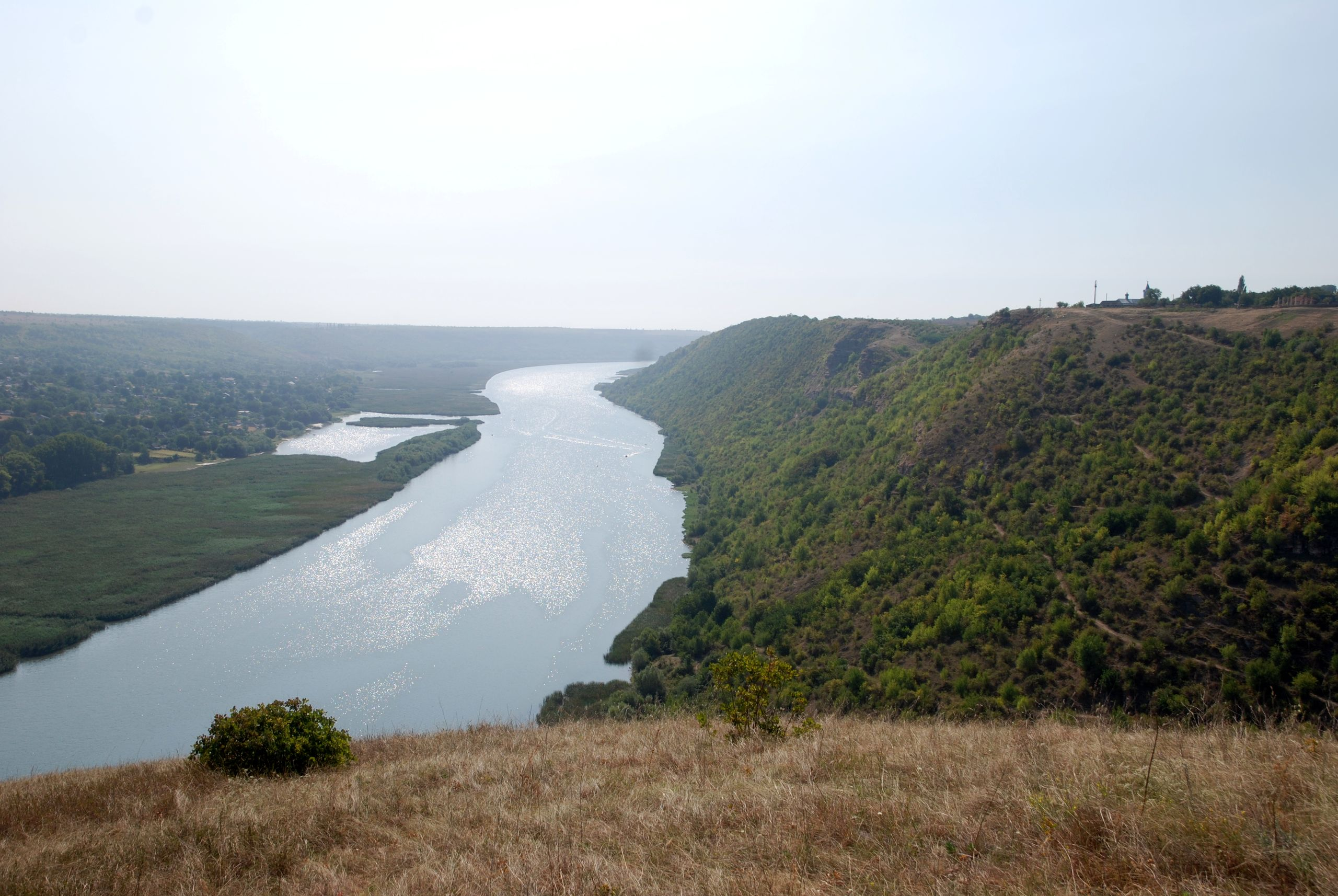 Dniester near Tipova